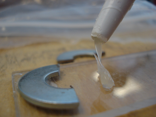 Half of the washer on the silicone glue and other half being glued down.